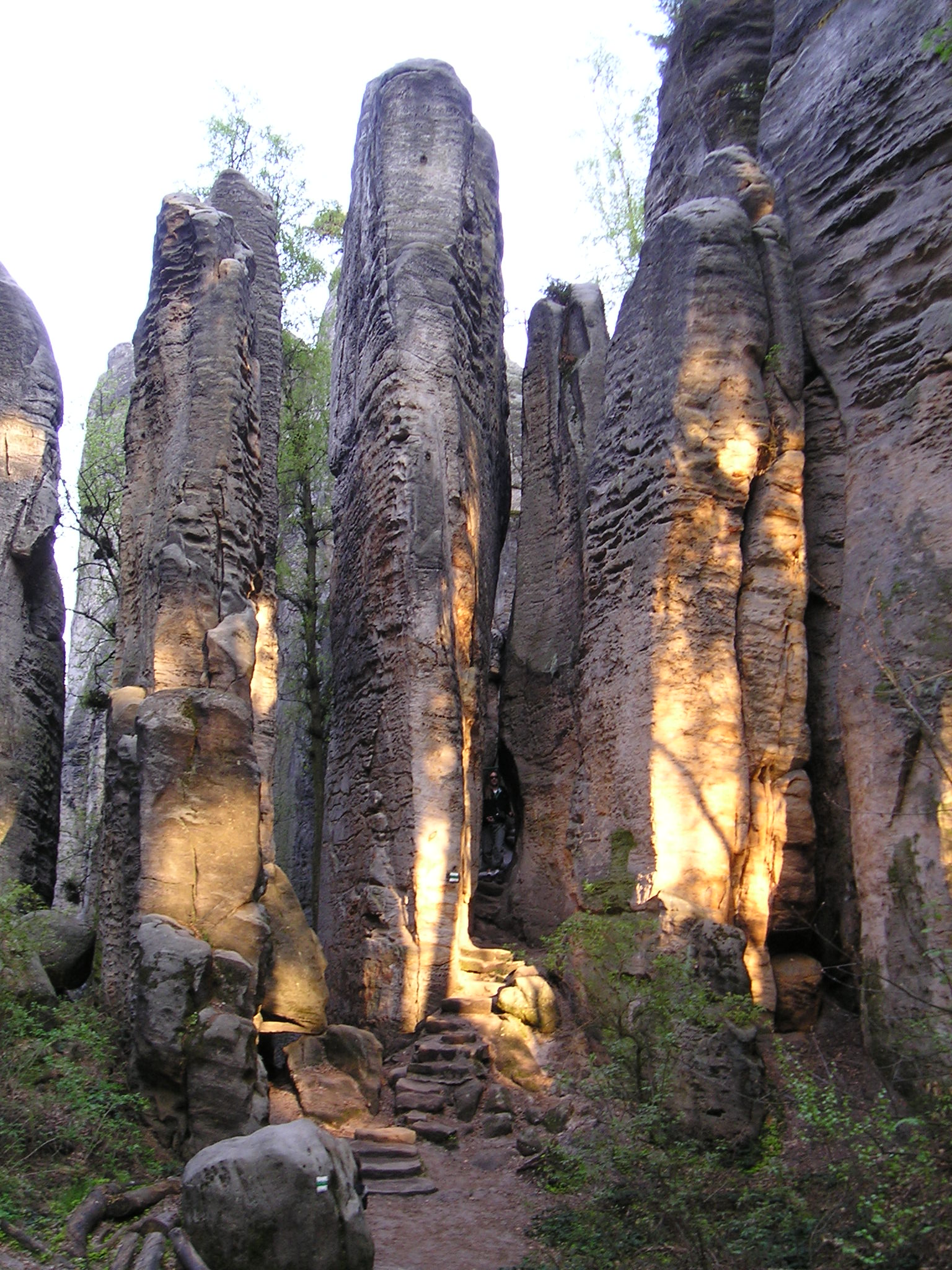 Bohemian Paradise region in the north of Czech Republic